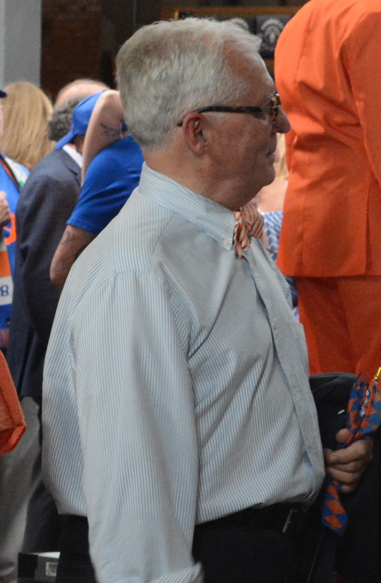 This photo was taken at an FC Cincinnati (FCC) event at Rhinegeist Brewery in Over-the-Rhine, Cincinnati, Ohio, USA on May 29, 2018. At the event, Major League Soccer commissioner Don Garber officially awarded an MLS franchise to FCC. Other speakers at the event included FCC general manager Jeff Berding, FCC owner and CEO Carl Lindner III, Cincinnati mayor John Cranley, and ESPN soccer commentators Adrian Healey and Taylor Twellman. The event was simultaneously livestreamed to a public party at Fountain Square in downtown Cincinnati.